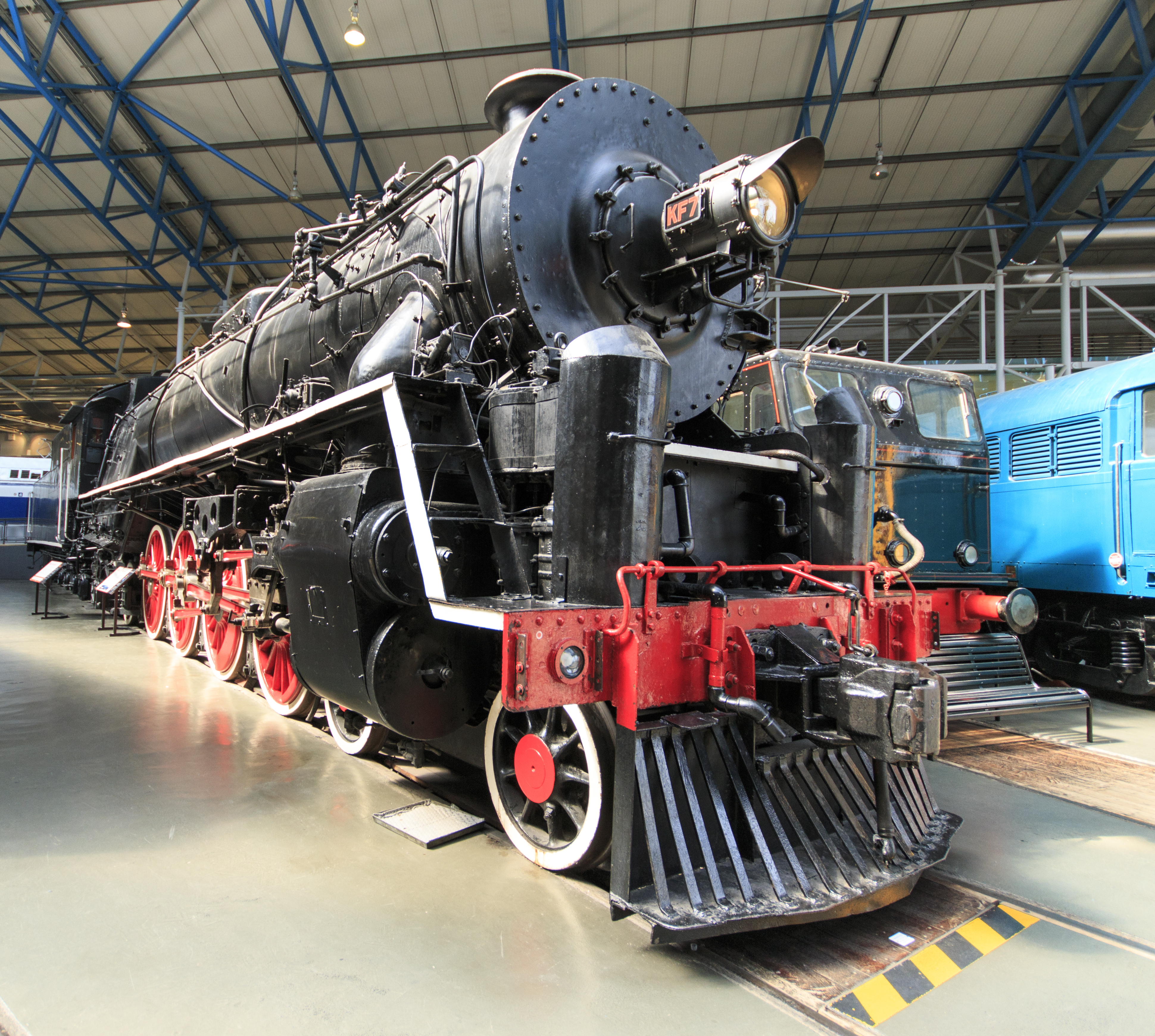 National Railway Museum